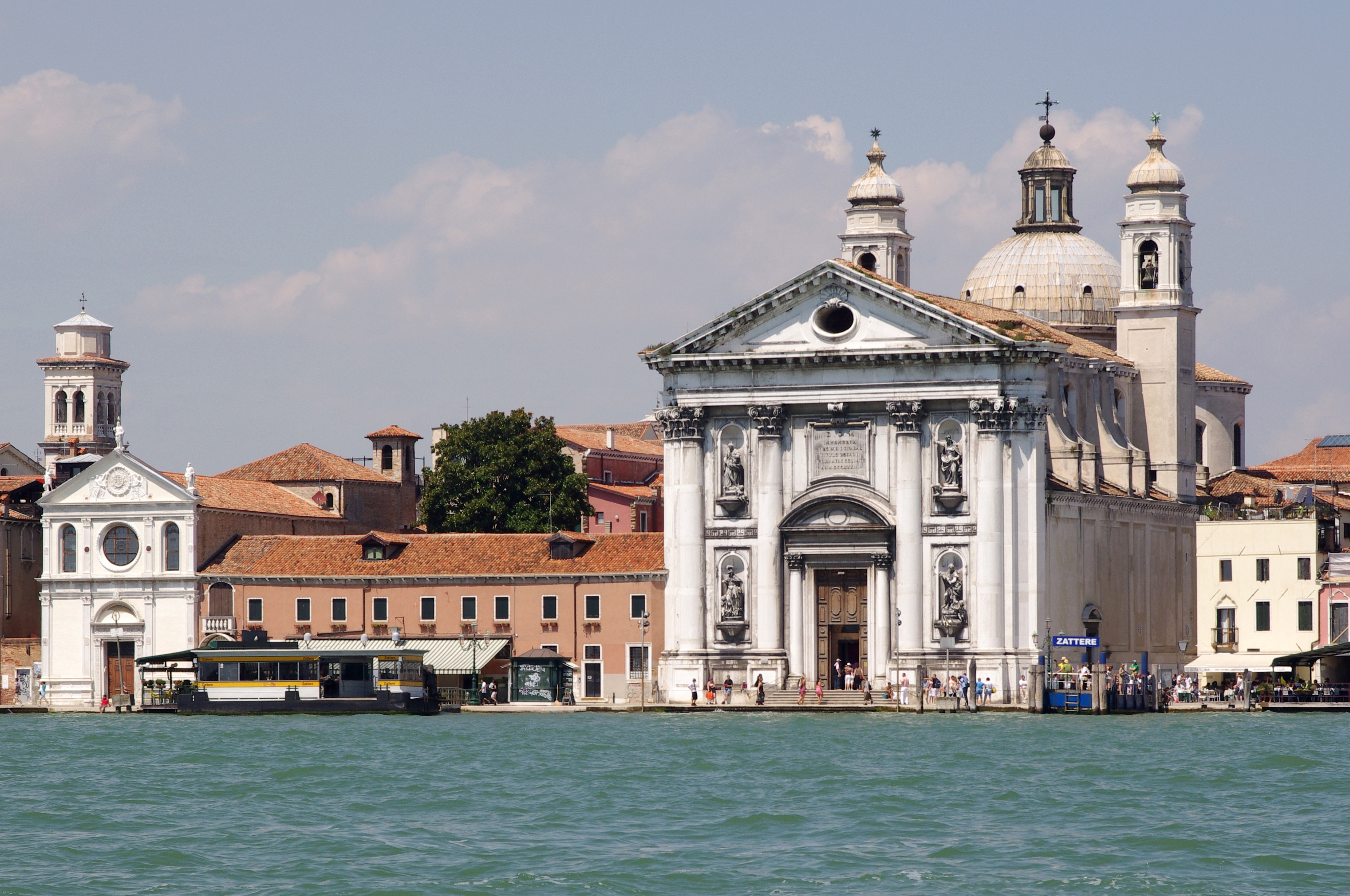 Santa Maria del Rosario Church (I Gesuati) in Venice